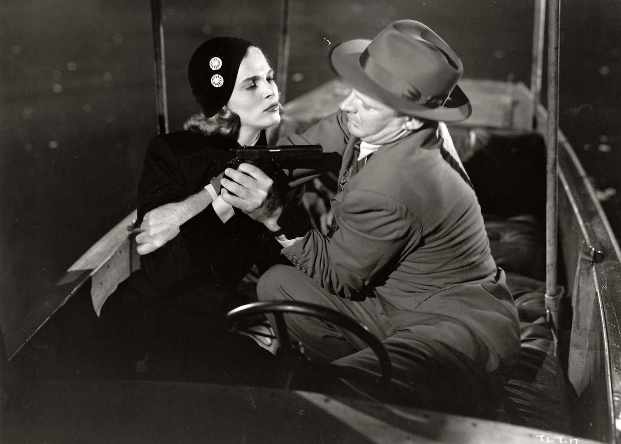 Posed publicity shot for "Too Late for Tears" (1949) Other information Film listed in Wiki article on films in public domain